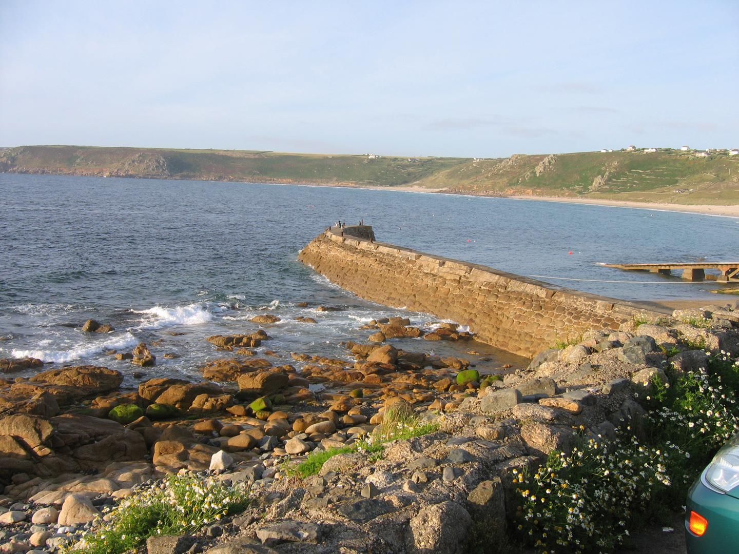 Sennen Cove breakwater, August 2005, from the car park